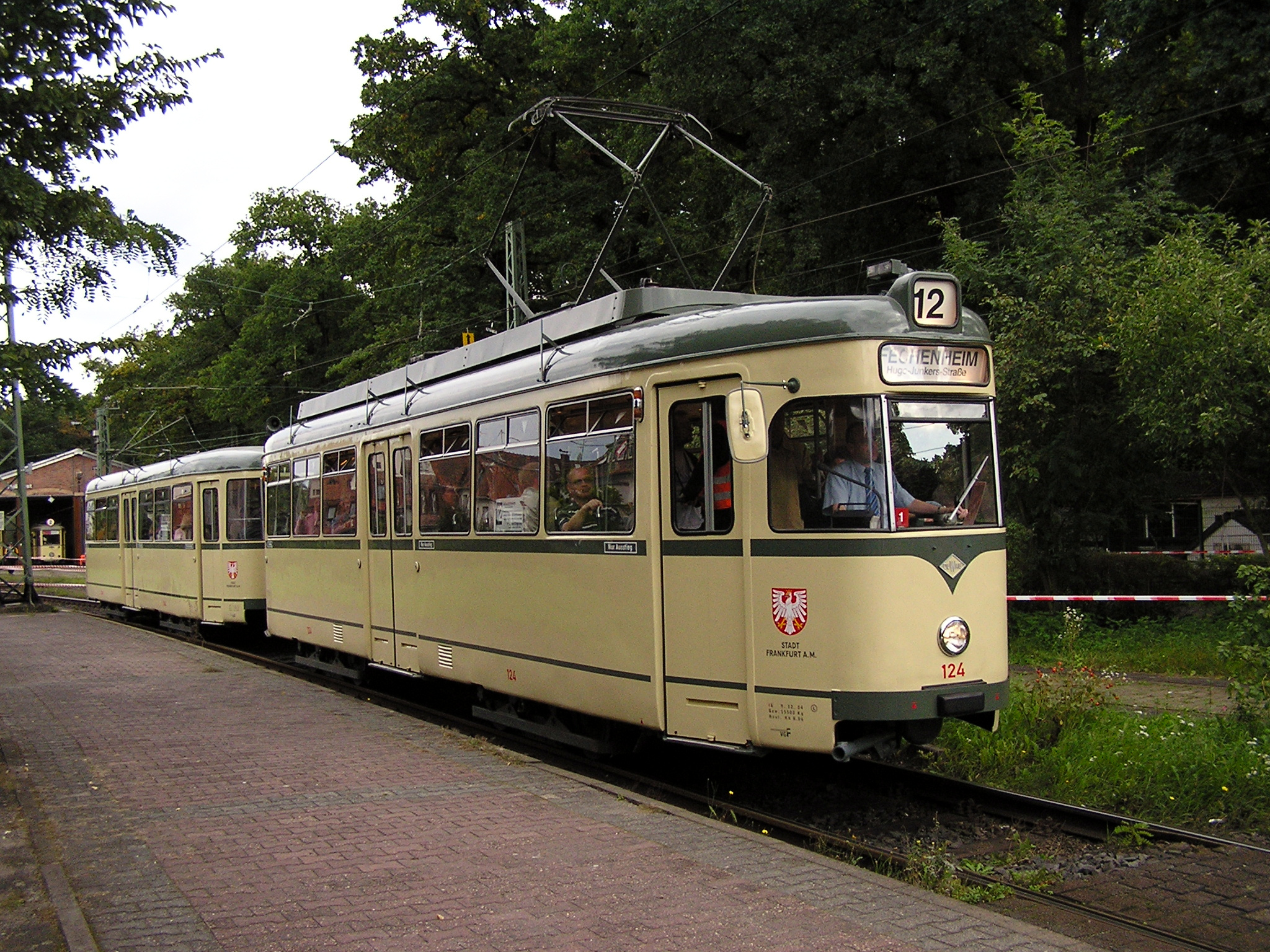 On the day of traffic history 2008 four historic tram cars of Frankfurt ran as line 12 from Hugo-Junkers-Straße to Rheinlandstraße (transport museum). The photo shows a L railcar with l trailer at the museum.